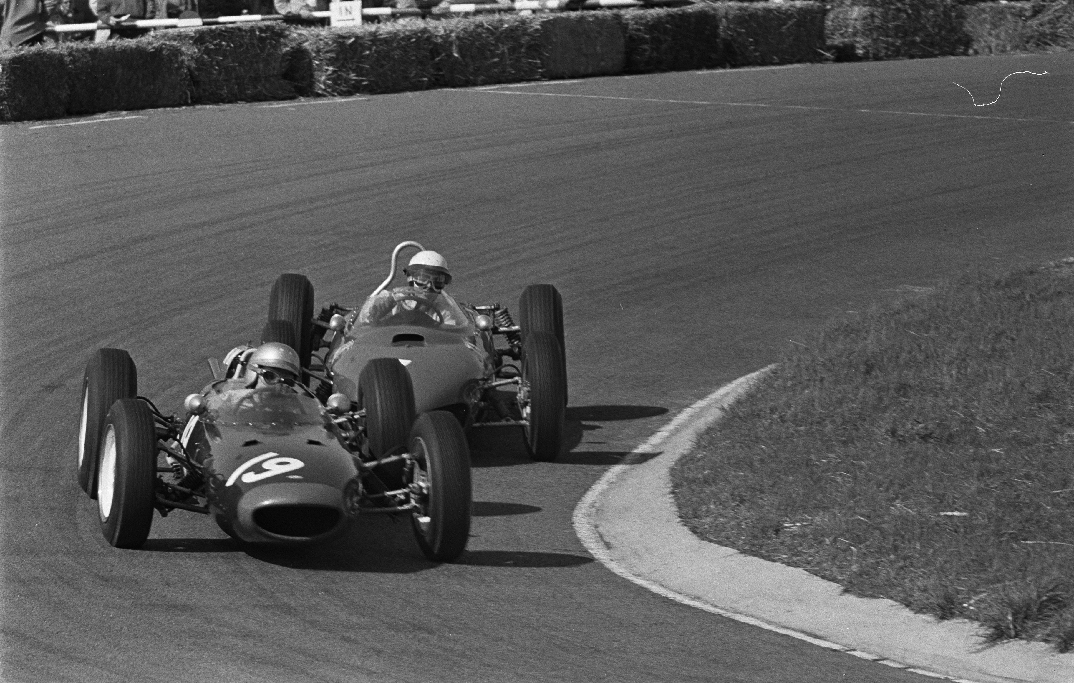 John Surtees (Bowmaker Racing, Lola Mk4, #19) leads defending World Champion Phil Hill (Scuderia Ferrari, Ferrari 156, #1) during the 1962 Dutch Grand Prix at the Zandvoort circuit.